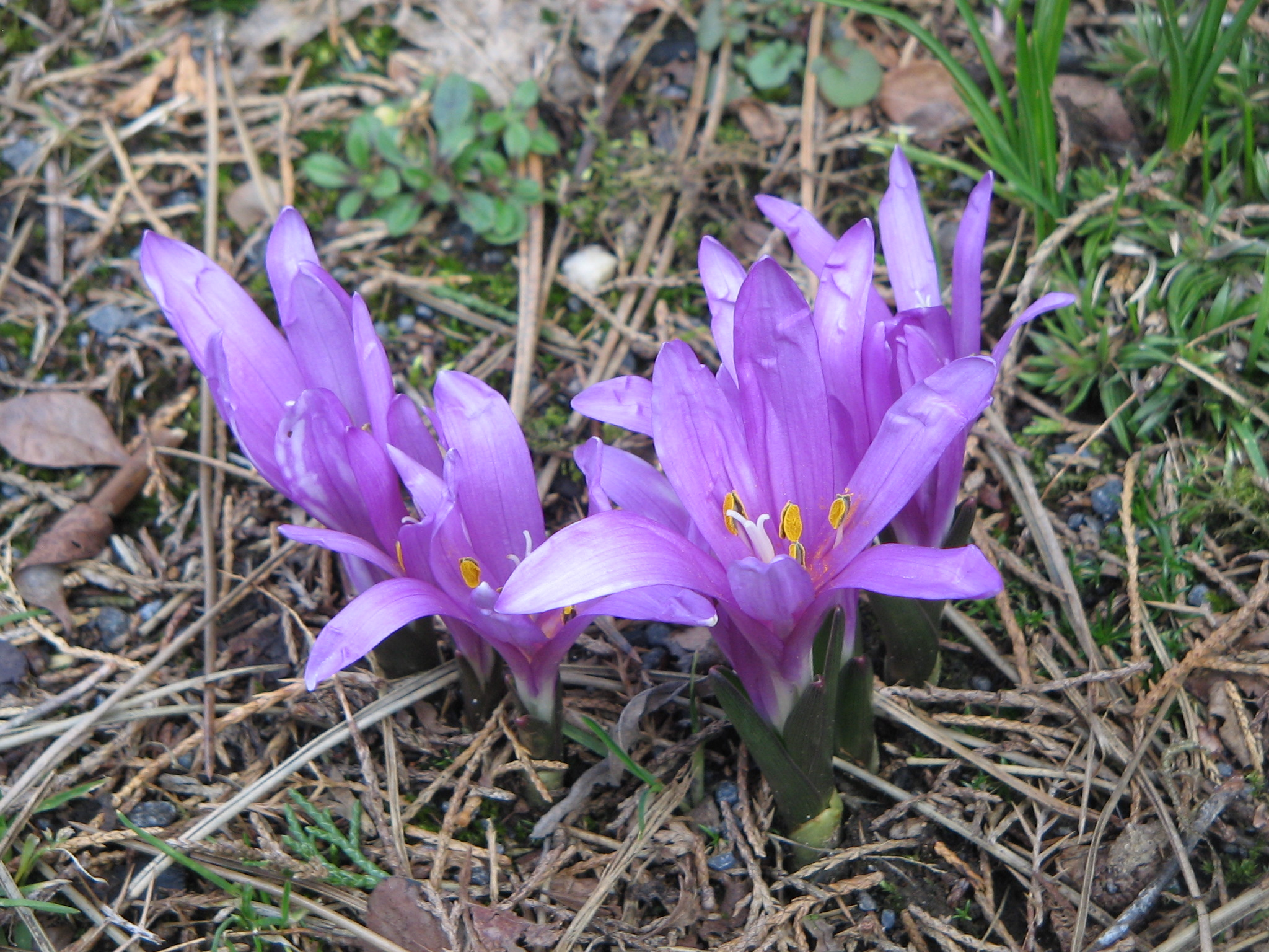 Colchicum bulbocodium